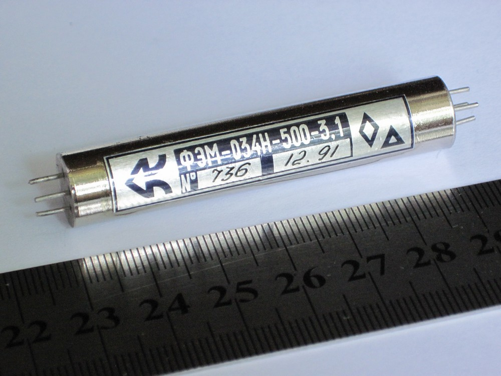 Mechanical filter (USSR)